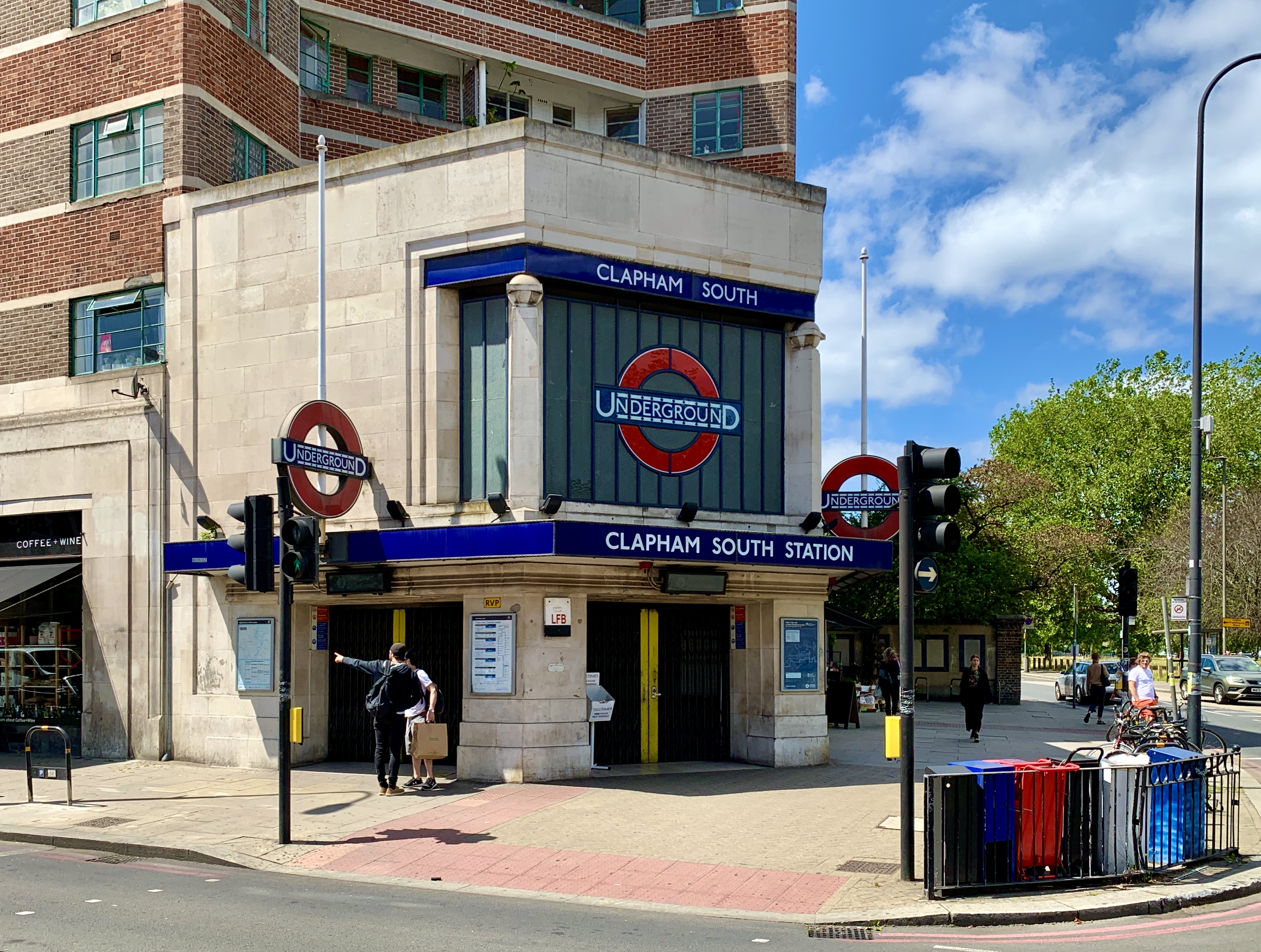 Entrance building of Clapham South tube station. Taken during my Northern Line Tube Walk.